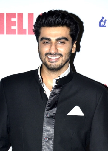 Arjun Kapoor at the Hello! Hall Of Fame Awards 2014